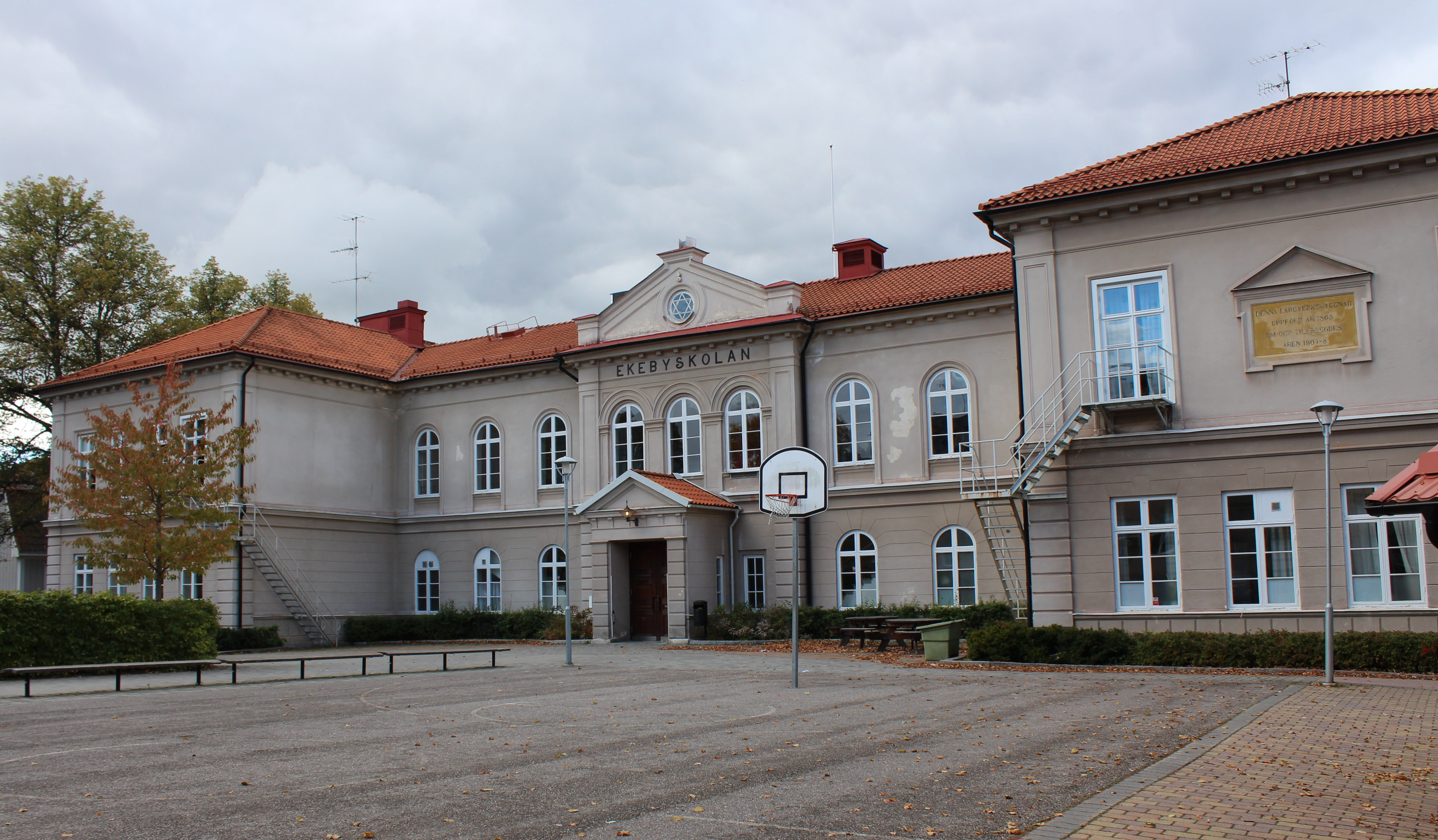 Late September in Sala Municipality, Sweden